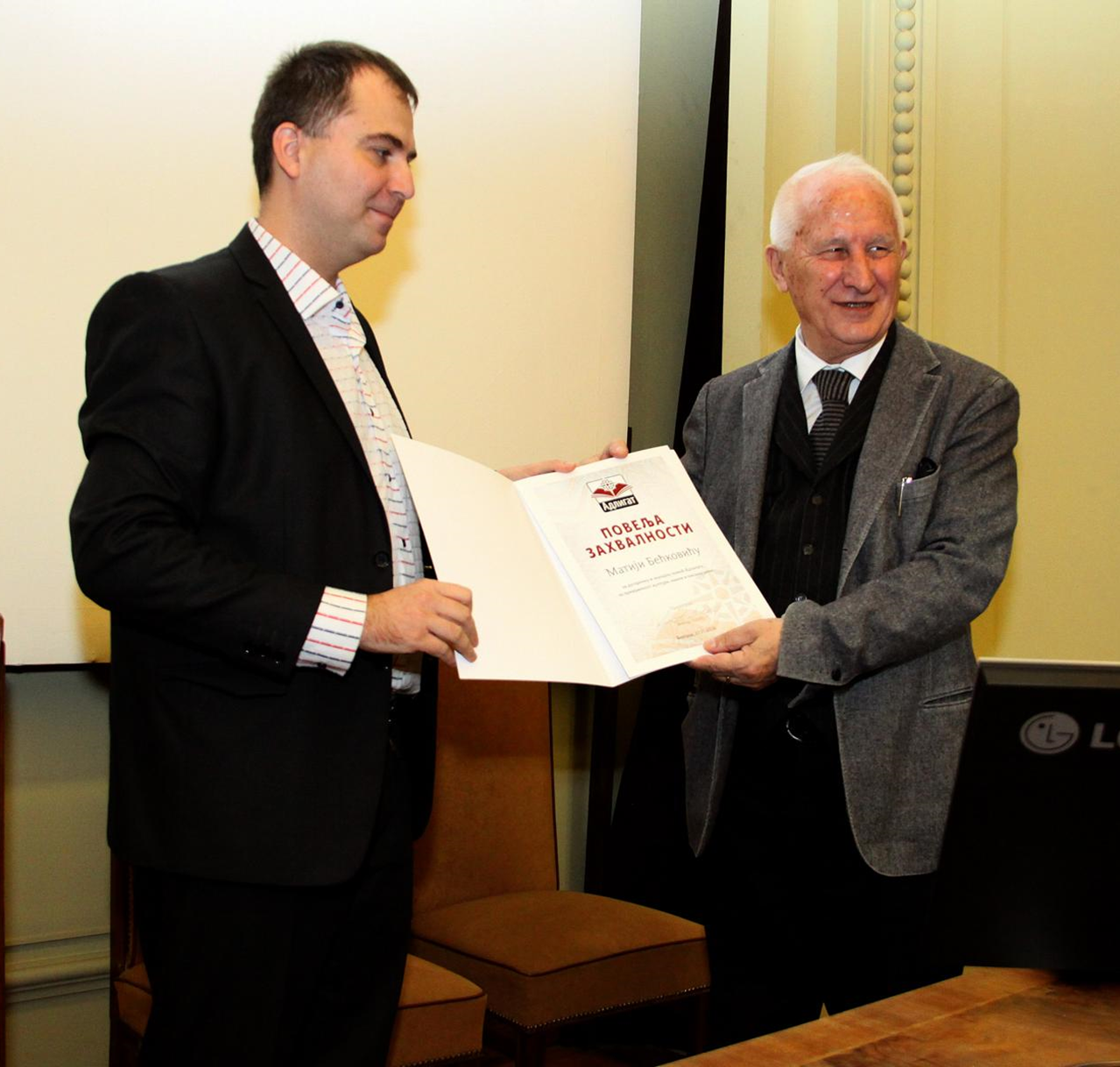 Viktor Lazić presents the Charter of Gratitude of the Adligat to Matija Bećković, 2018. Српски (ћирилица): Виктор Лазић уручује Повељу захвалности Адлигата Матији Бећковићу, 2018.